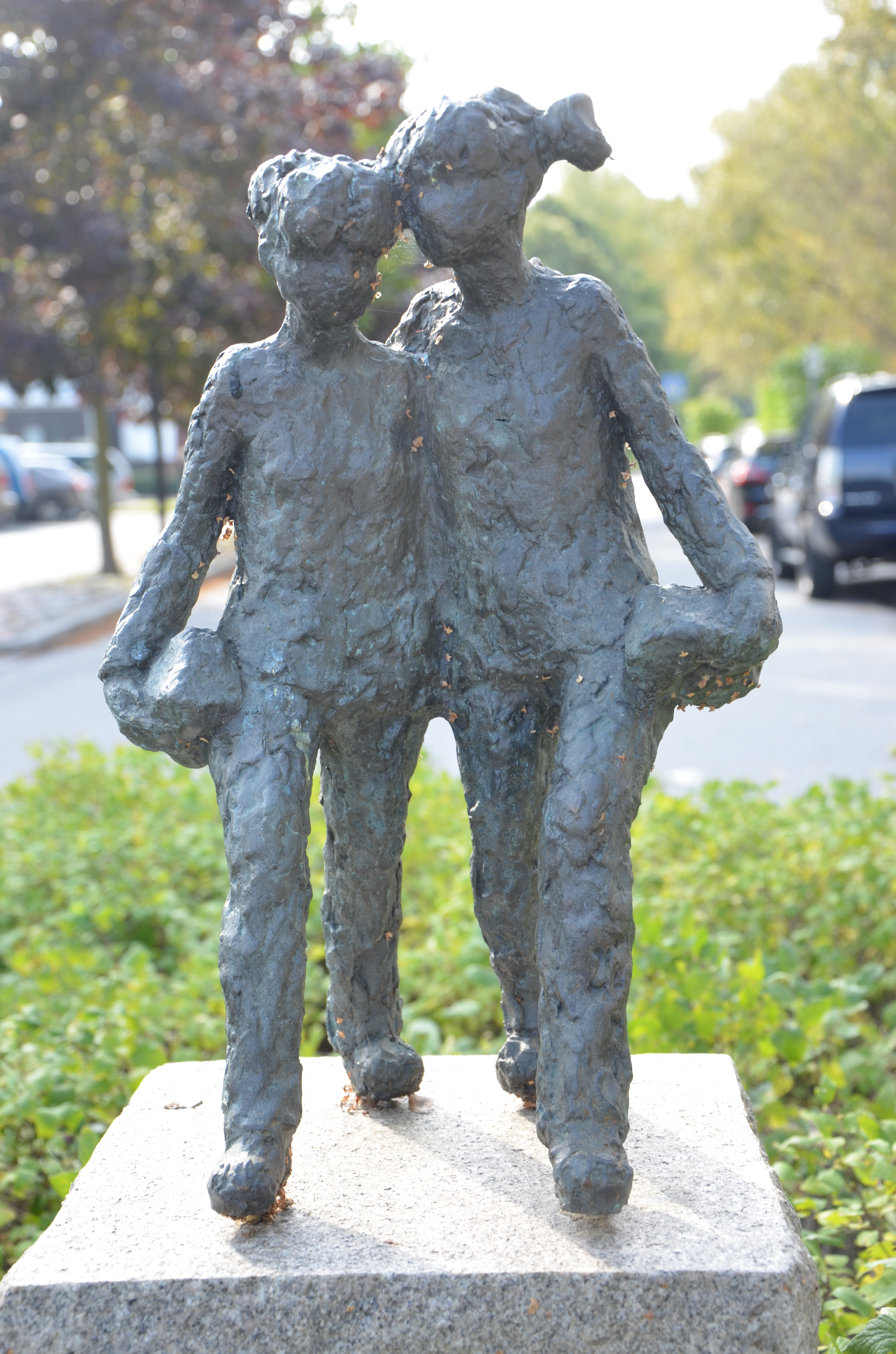 Hermine Kellers Vänner vid Banvägen i Täby kommun, vid järnvägsövergången vid Rolslags Näsby station, brons, 2003